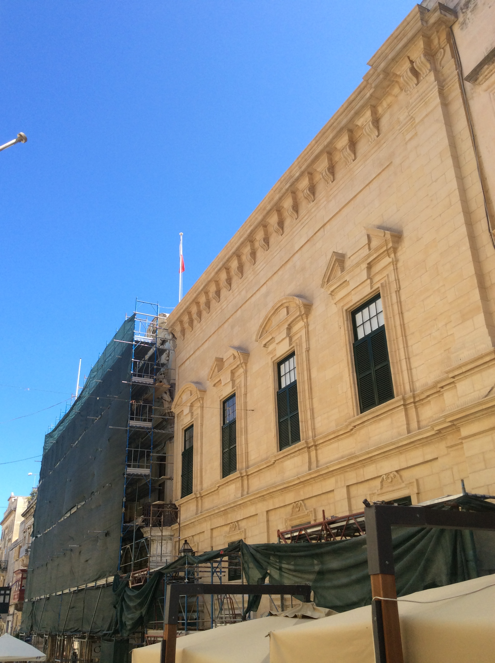 Castellania This media is about Maltese cultural property with inventory number 01132.